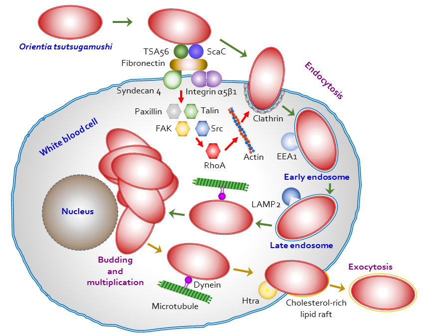 The molecular mechanism of white blood cell invasion by O. tsutsugamushi.